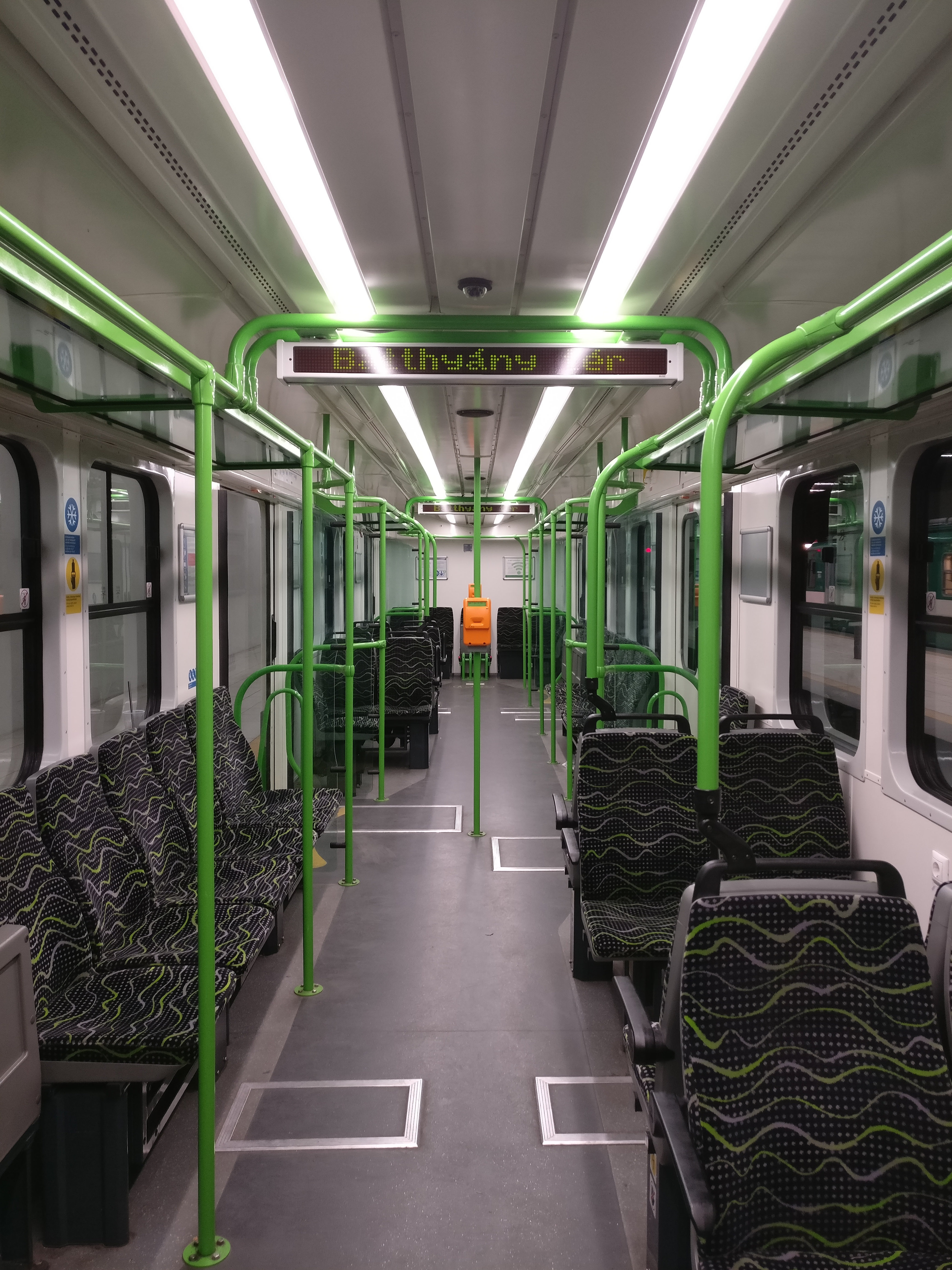 Picture of a refurbished electric multiple unit interior of MÁV-HÉV of Budapest, Hungary